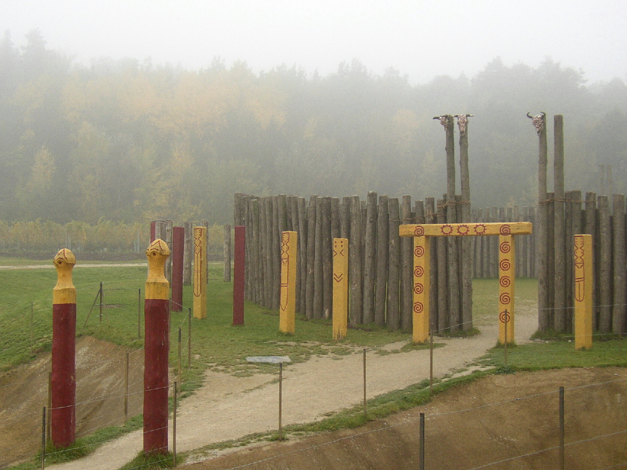 Reconstruction of circular ditches, Niederösterreichische Landesausstellung (Lower Austria Country Exhibition) 2005